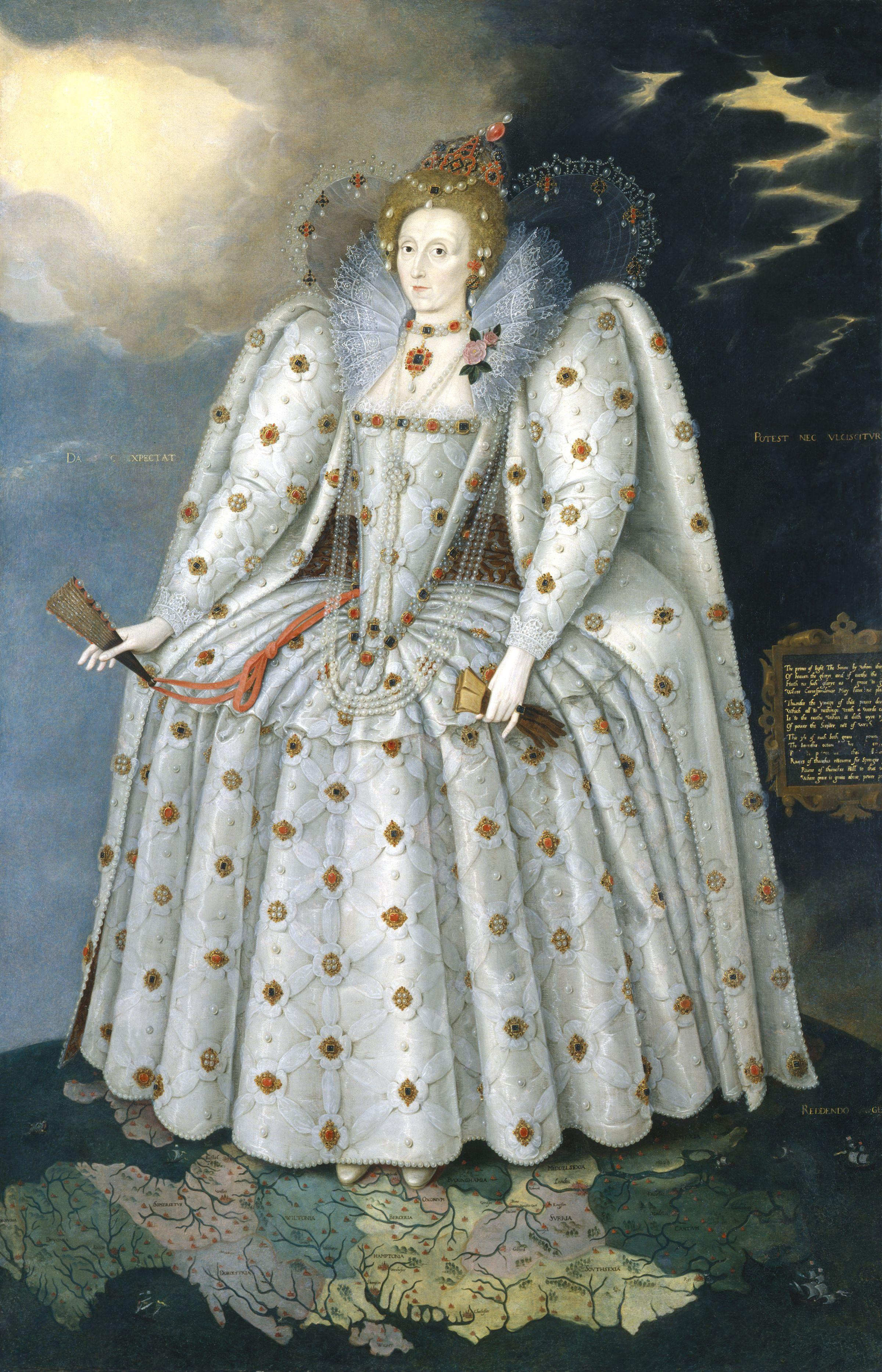 Queen Elizabeth I standing on a map of England.